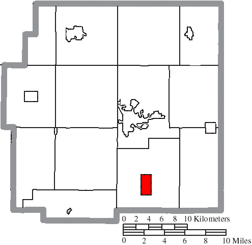 Map of the municipal and township boundaries of Wyandot County, Ohio, United States, as of the 2000 census, with the location of the village of Harpster highlighted. Township borders are shown only in unincorporated areas in order to differentiate incorporated and unincorporated areas more clearly.